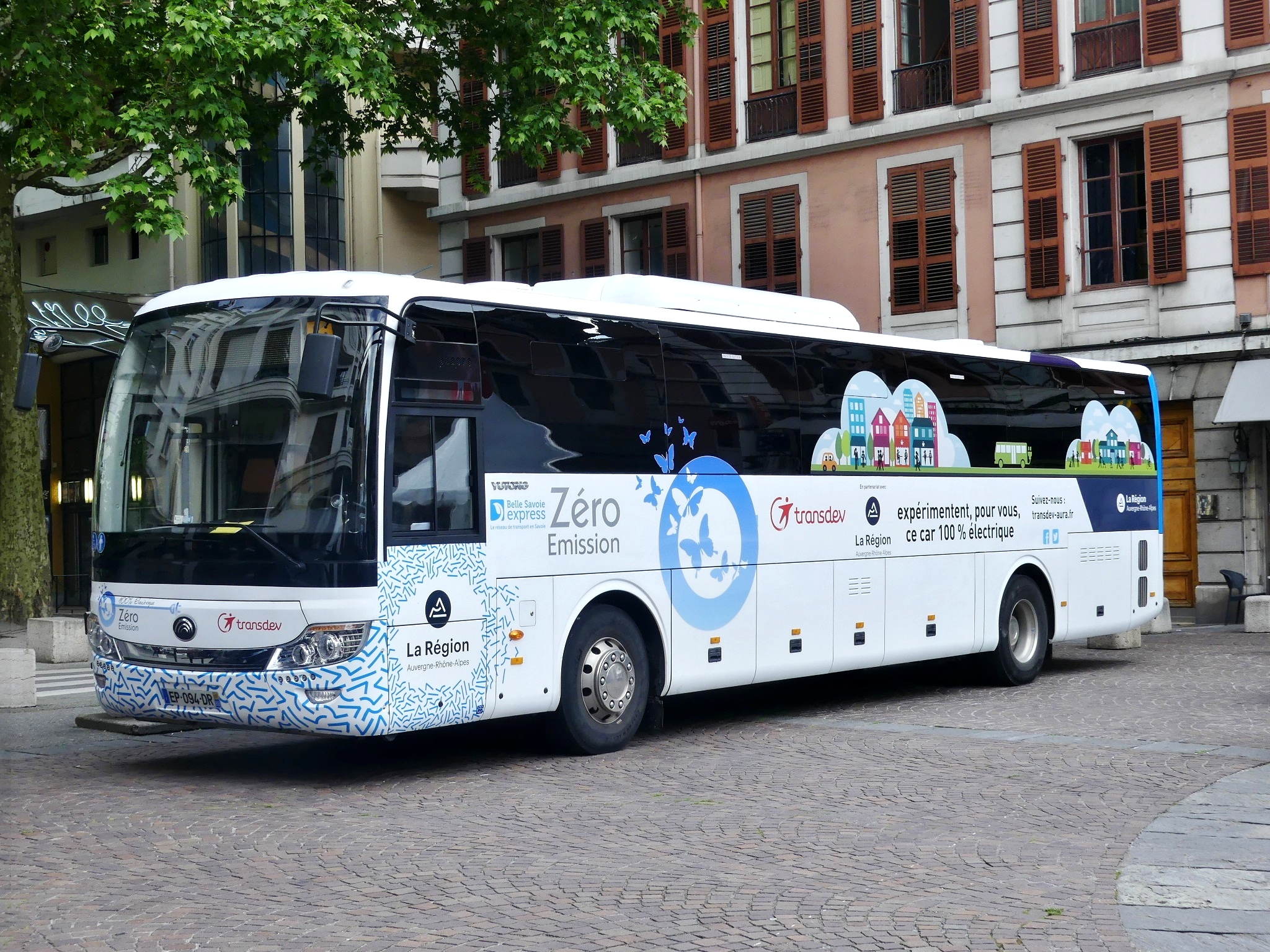 Sight of the first full-electric coach in use in Chambéry, Savoie, France. This coach is at the time tested during a month between Novalaise and Chambéry.